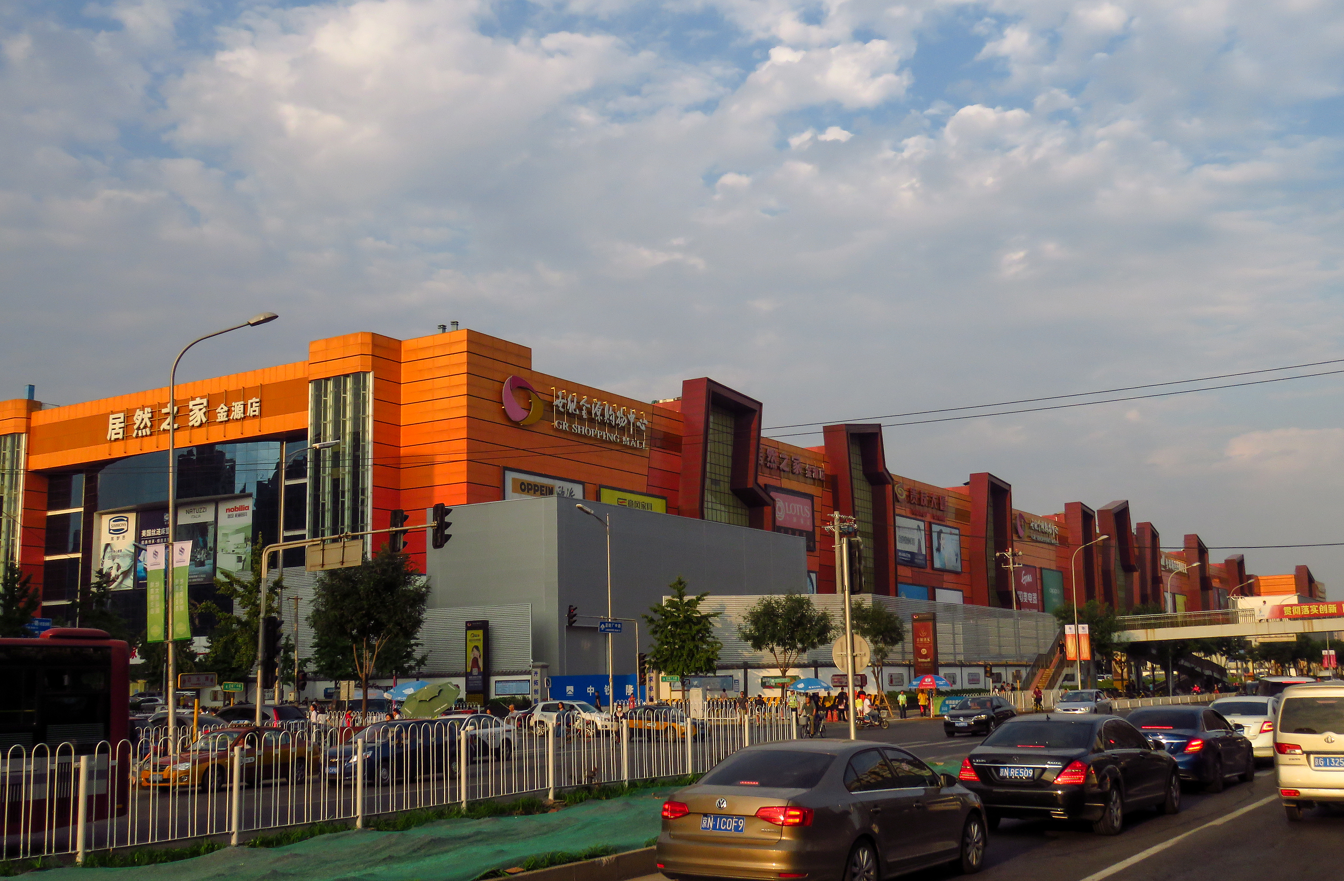 Extremely long...